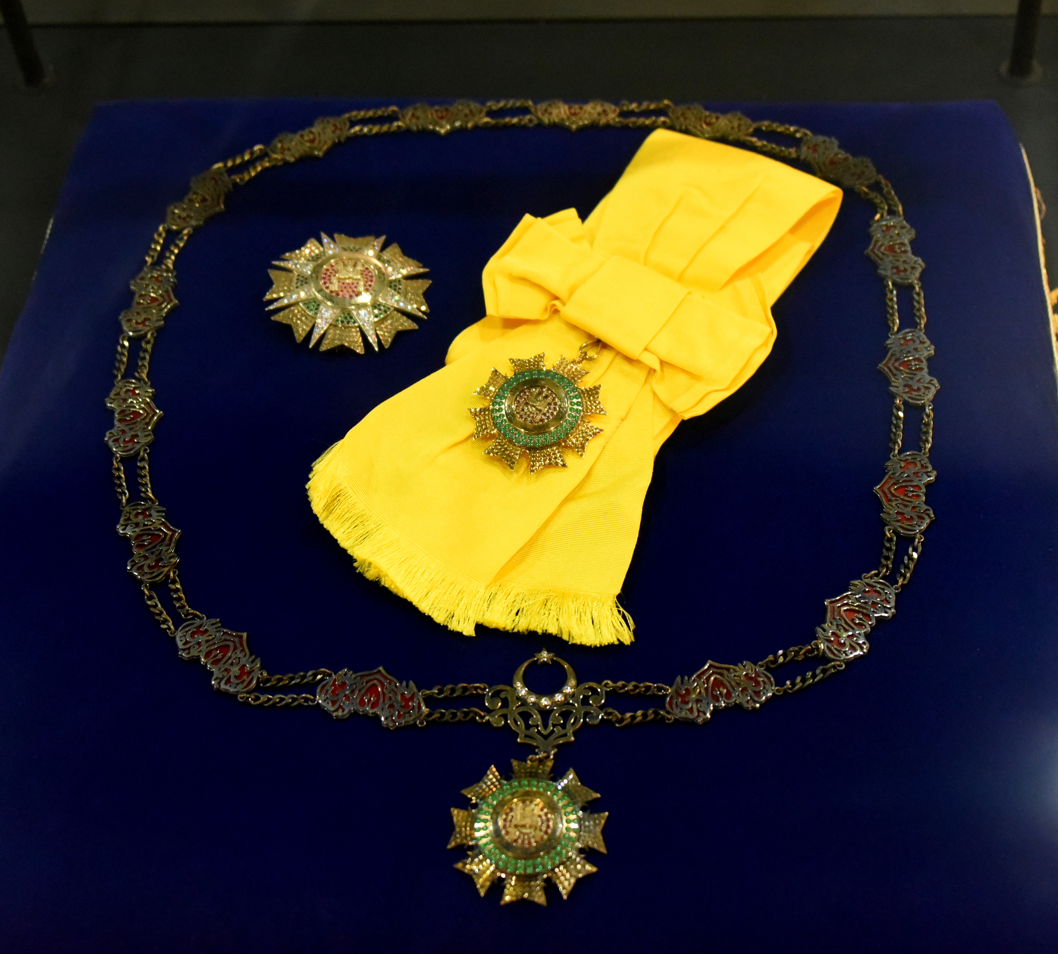 Royal Family Order of the Crown of Brunei. Awarded Honour to Tuanku Ja'afar in 1996. The Tuanku Ja'afar Royal Gallery, Seremban, Negeri Sembilan, Malaysia.